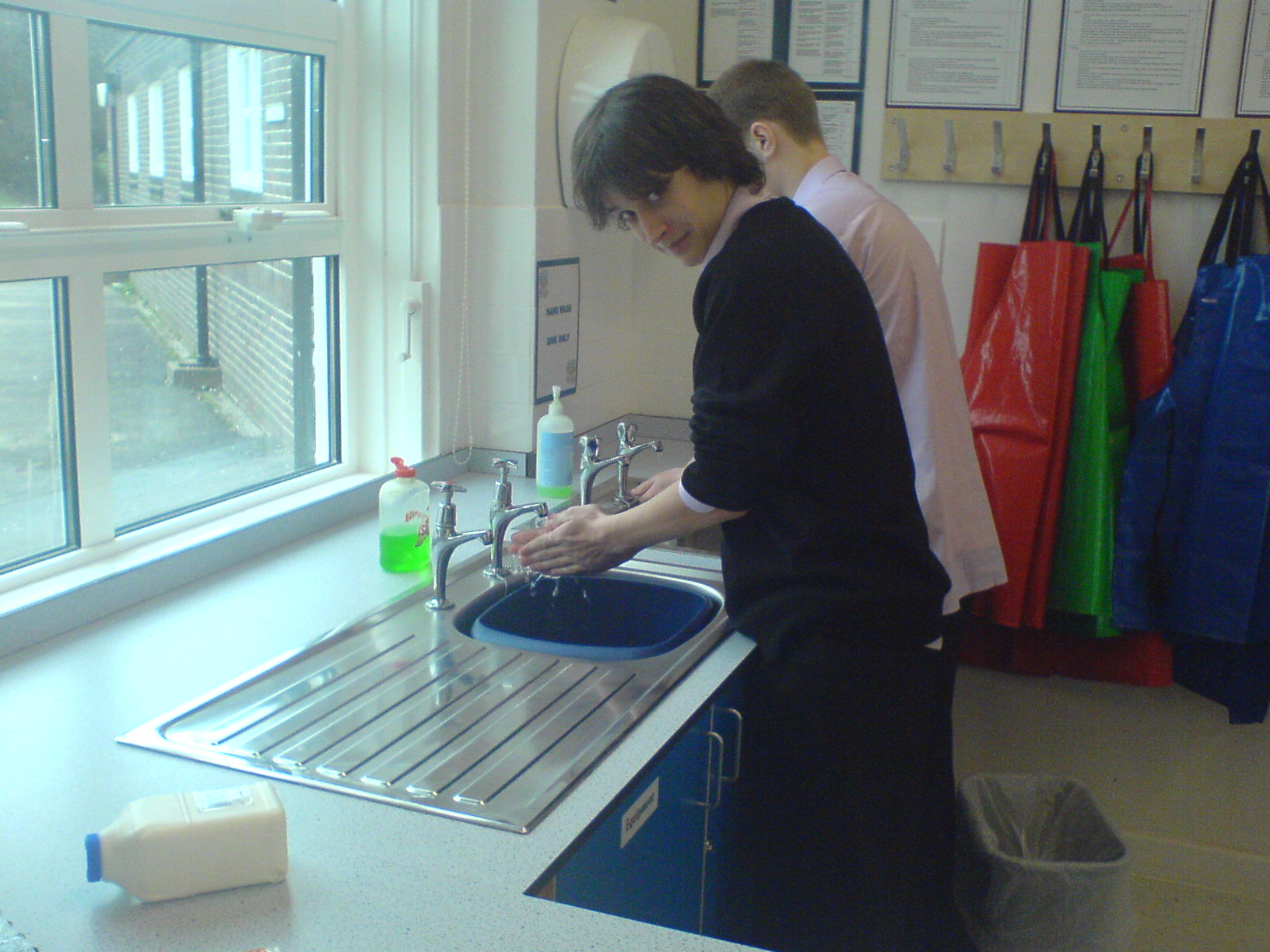 James Twisleton, typical Oathall student, imitating washing his hands-in preparation for a session in Oathalls new Food Technology department